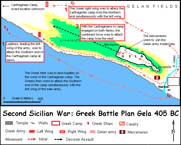 Siege of Gela 405 BC. Presents information from Public Domain book "History of Sicily" volume III, page 562-571 by Edward A. Freeman